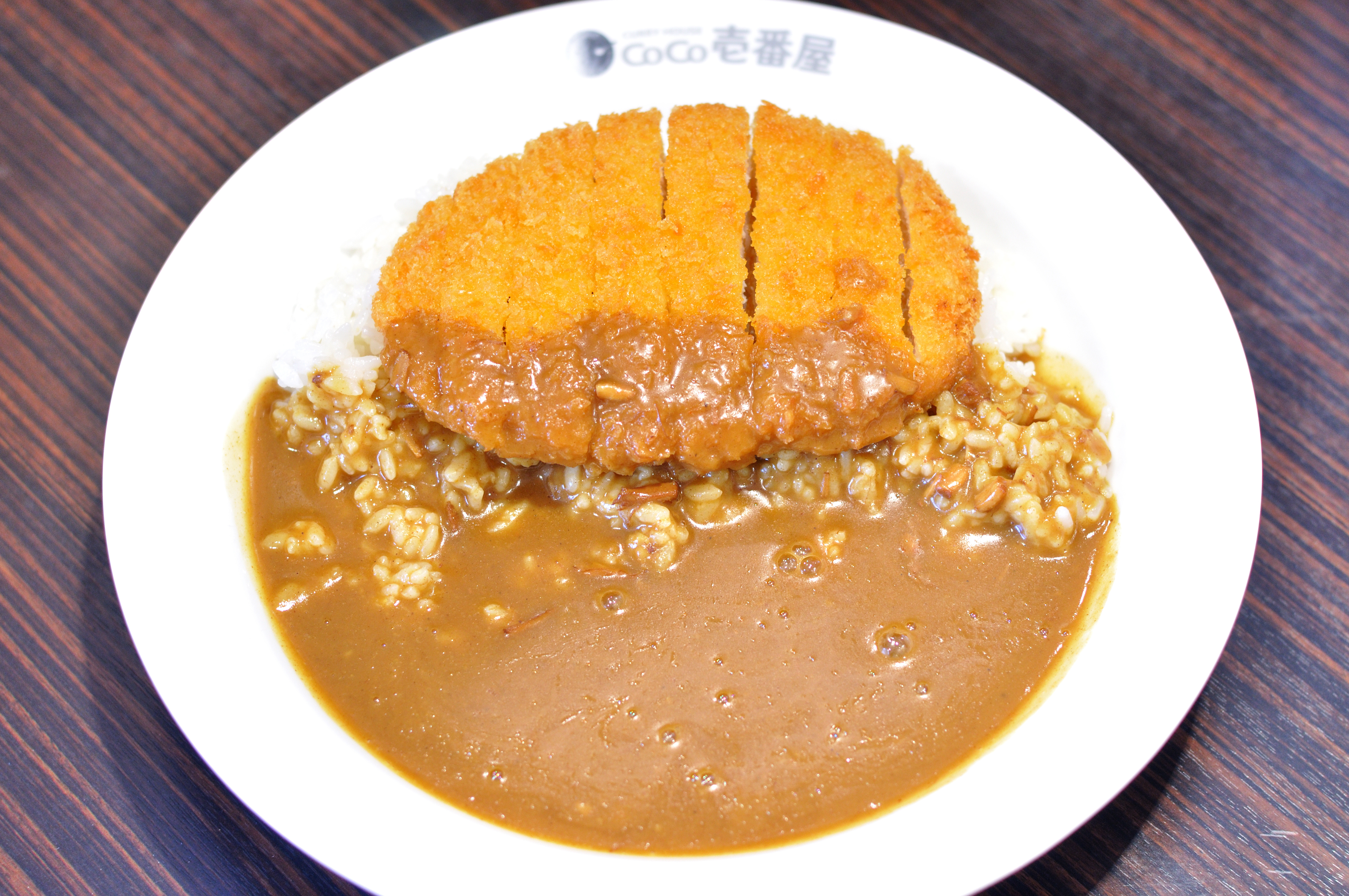 Katsukarē sold at Coco Ichibanya.